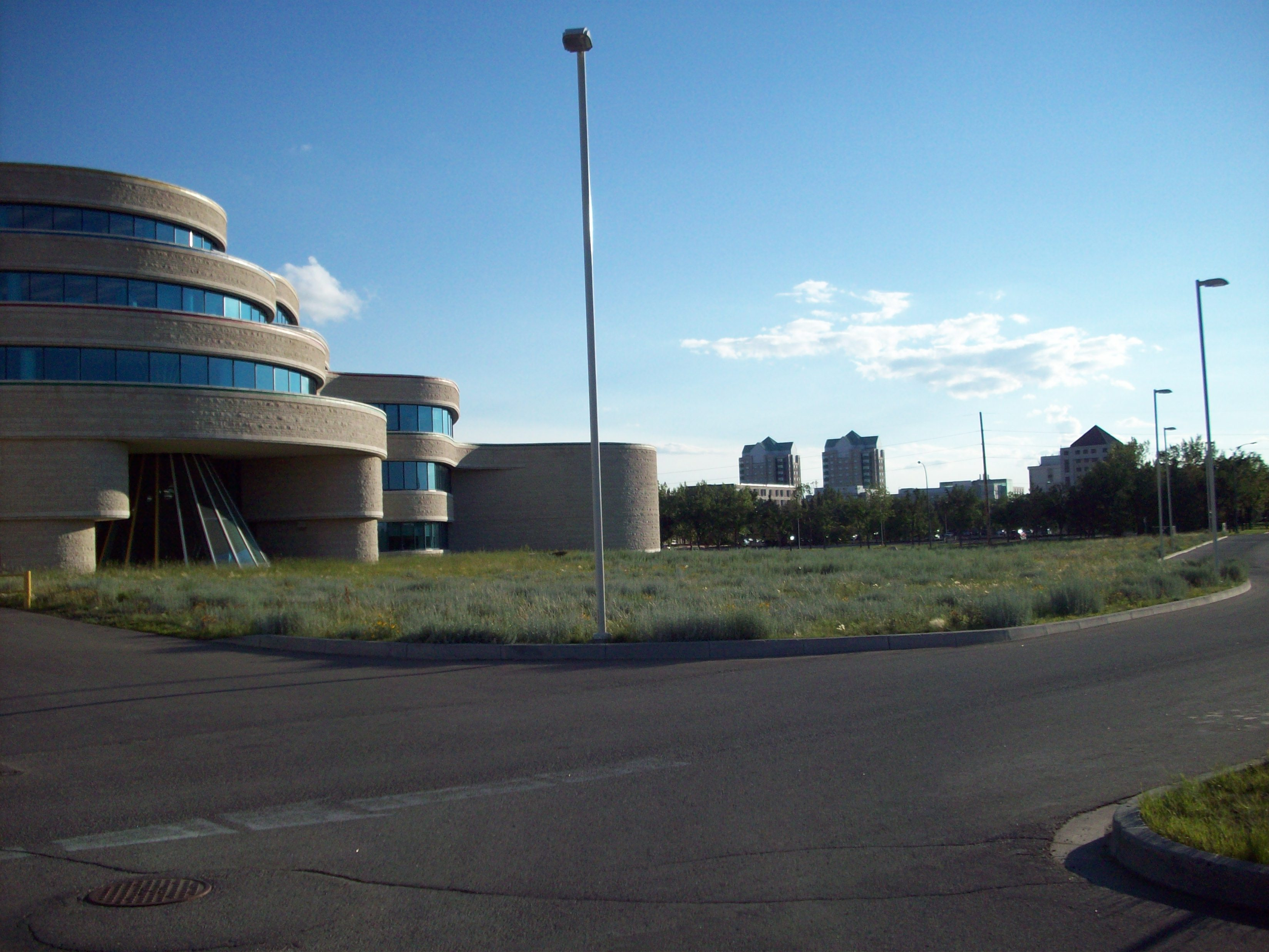 First Nations University and main campus of U of R